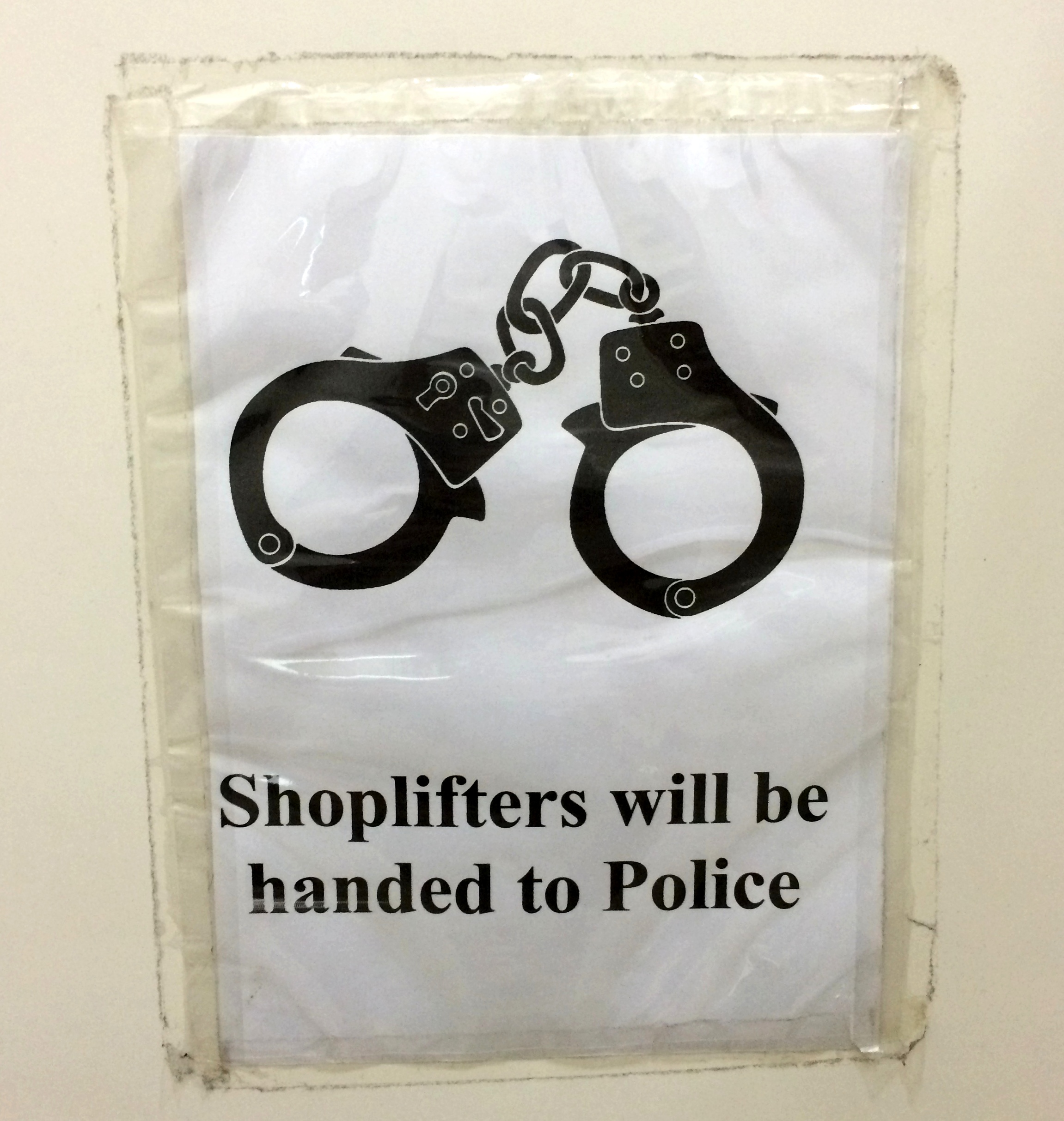 Description: "Shoplifters will be handed to the police" sign in Subang Parade, Malaysia.